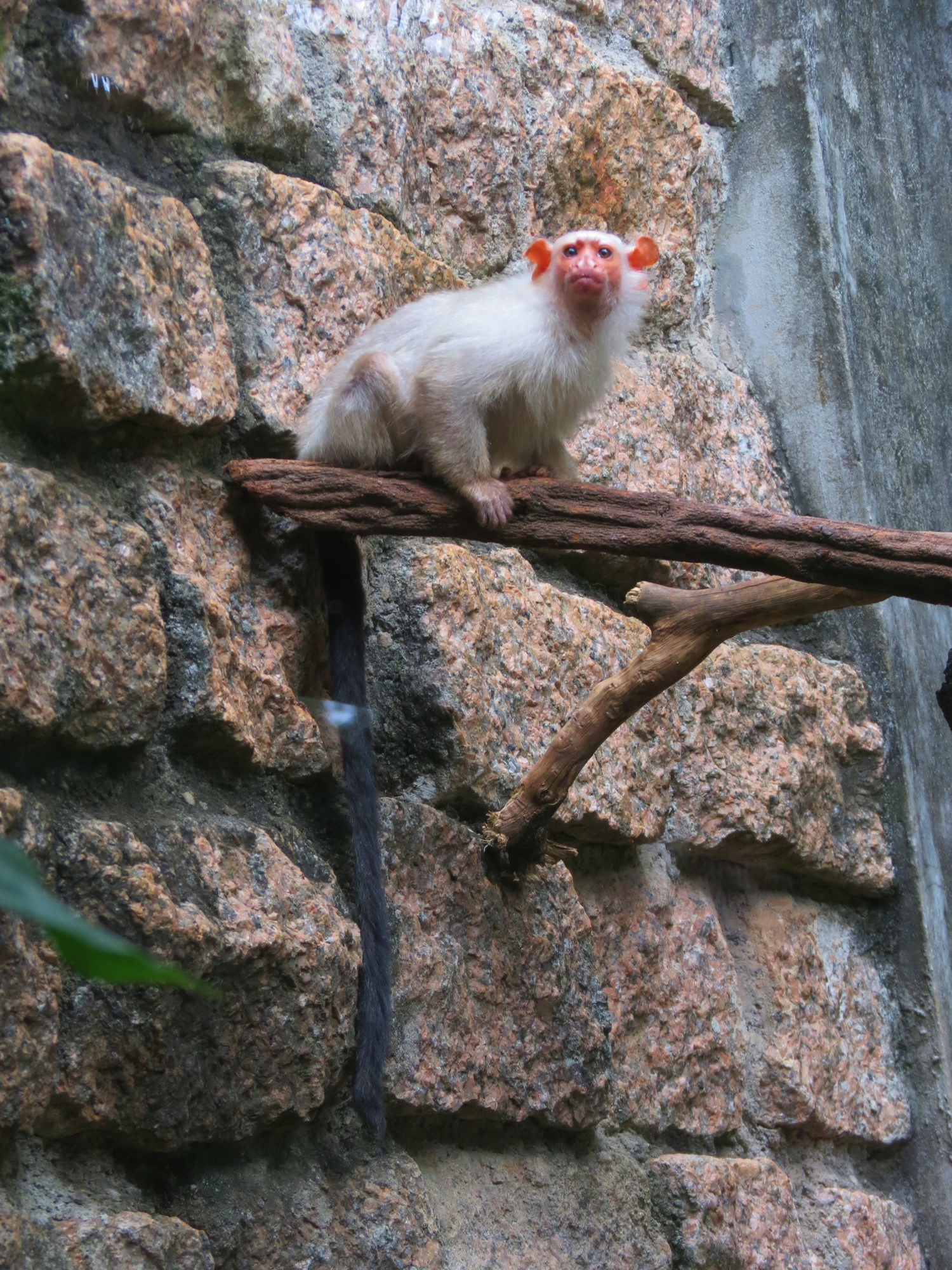 Silvery marmoset (Mico argentatus) in Sorocaba Zoo.